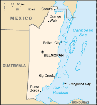 Belize map from CIA World Factbook (since 18 October 2000), converted from original GIF format